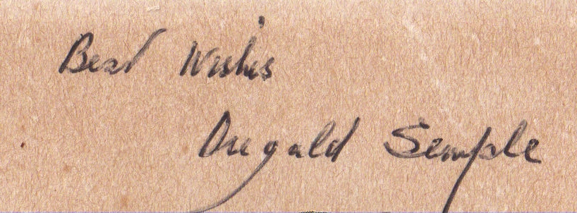 Autograph of Dugald Semple